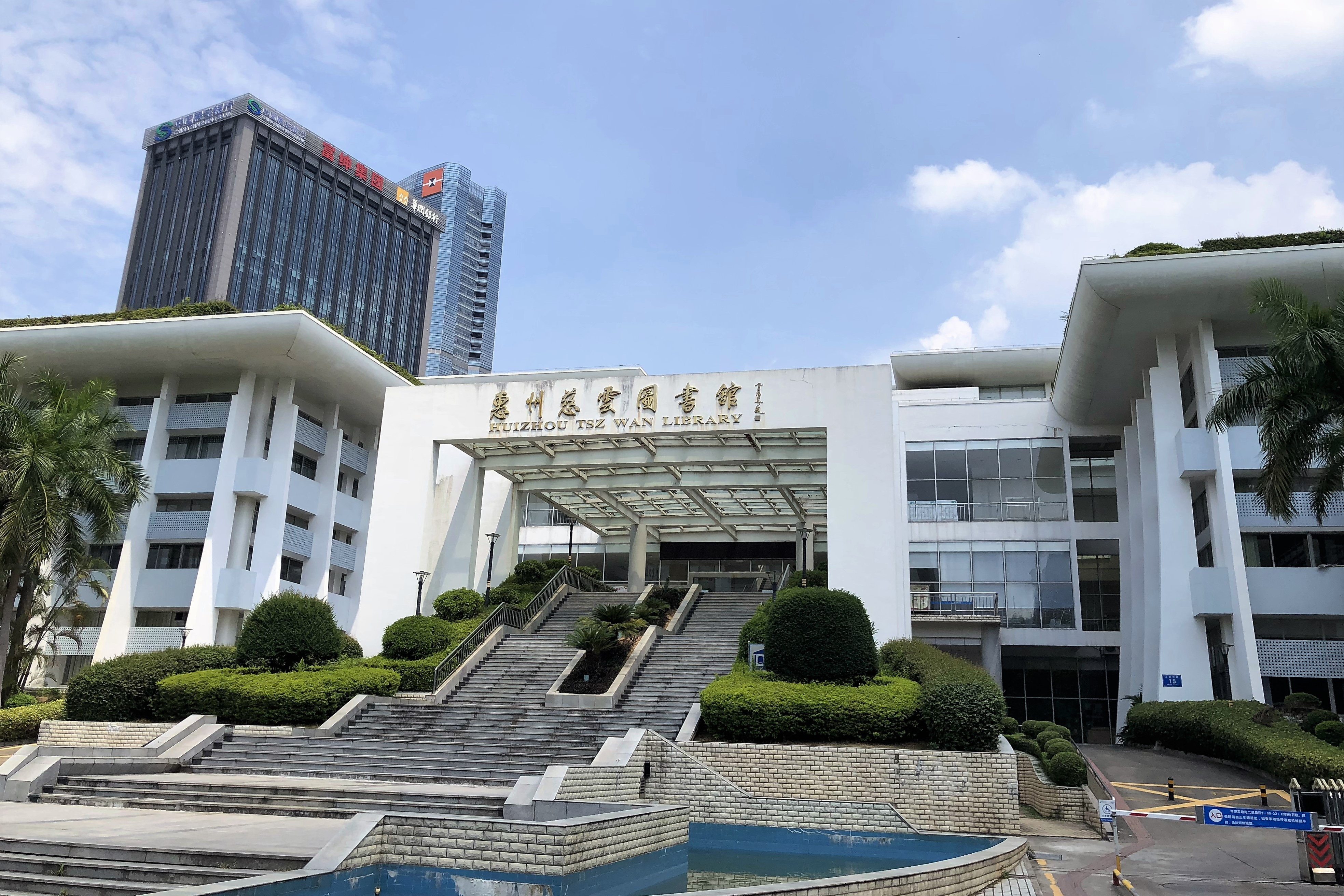 Huizhou Tsz Wan Library